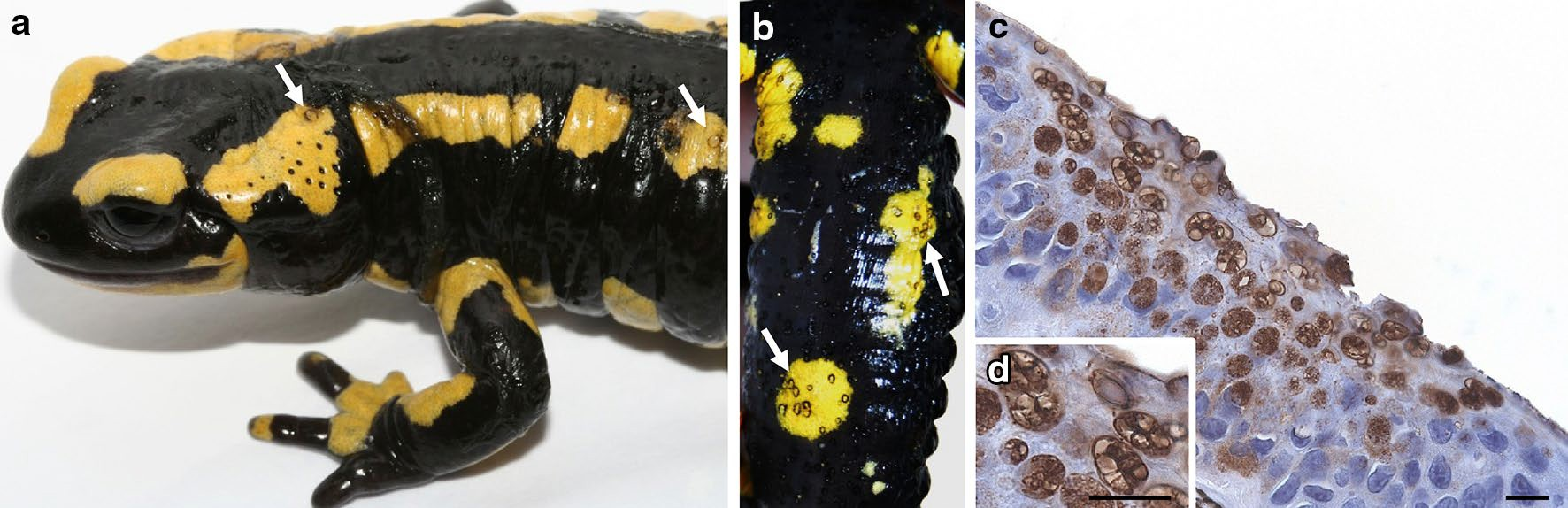 Clinical signs and pathology associated with infection due to Batrachochytrium salamandrivorans. a) A naturally infected fire salamander (Salamandra salamandra) found during a B. salamandrivorans-outbreak (Robertville, Belgium) showing several ulcers (white arrows) and excessive skin shedding; b) extensive ulceration (white arrows) at the ventral side of an infected fire salamander; c) skin section through an ulcer evidences abundant intracellular colonial thalli in all epidermal skin layers; immunohistochemical stain with polyclonal antibodies to B. dendrobatidis; scale bar 10 μm; d) magnification of the intracellular colonial thalli from micrograph c; immunohistochemical stain; scale bar 10 μm.